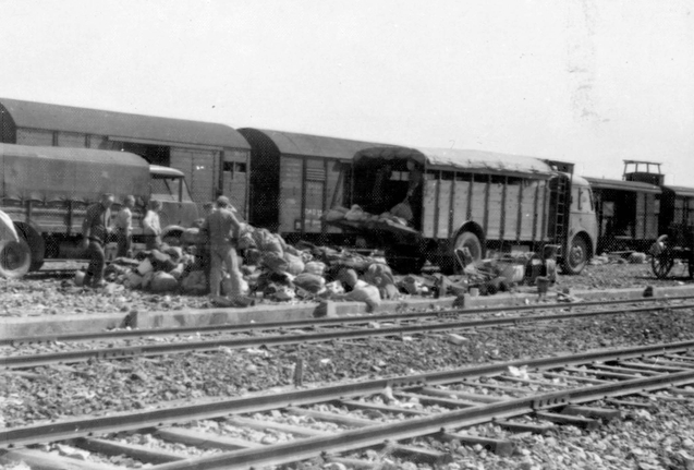 Birkenau, Poland, Loading personal possessions on trucks standing next to the platform, 27/05/1944. Photographs documenting the arrival process of Hungarian Jews from the Tet Ghetto in Auschwitz-Birkenau extermination camp during the second half of 1944.